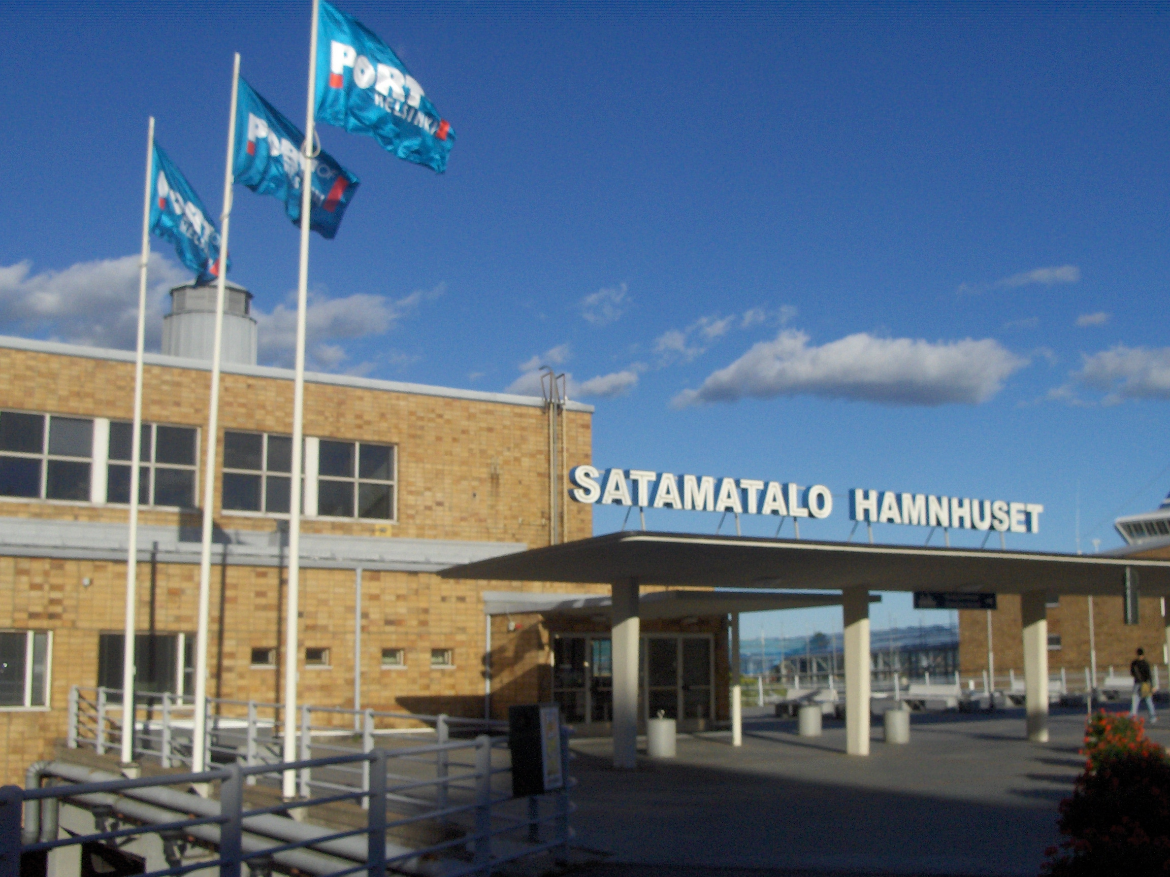 Olympia Terminal in South Harbour, Helsinki, Finland